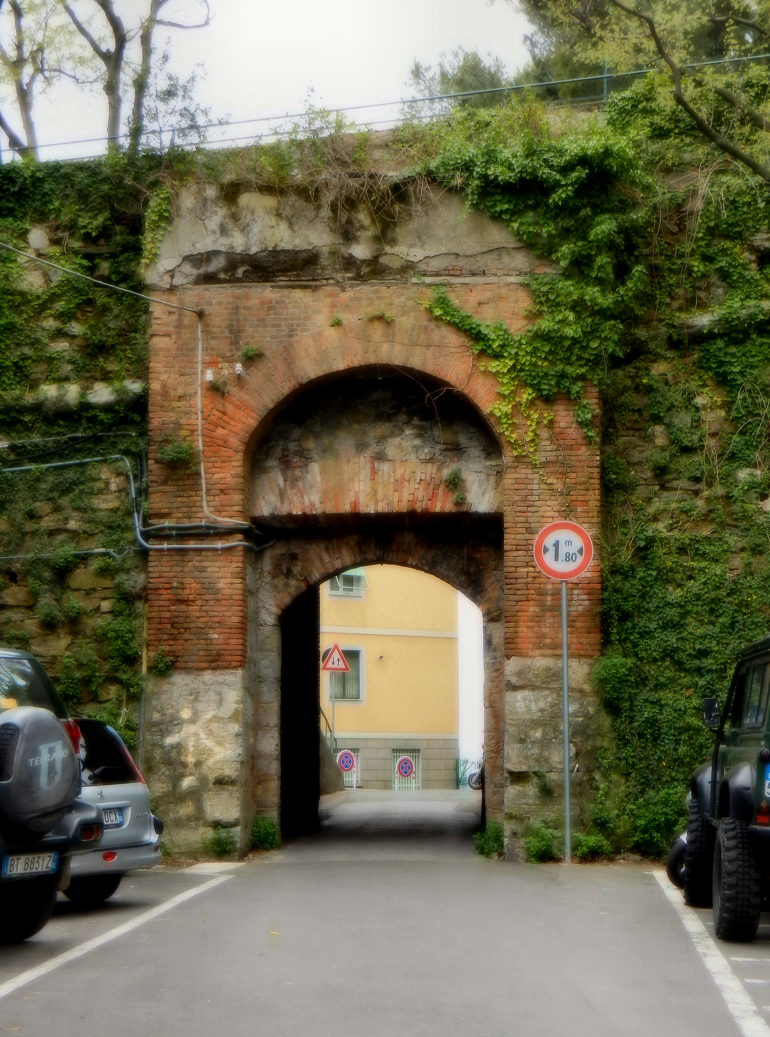 Genoa, Italy, quarter of Castelletto, San Bernardino gate